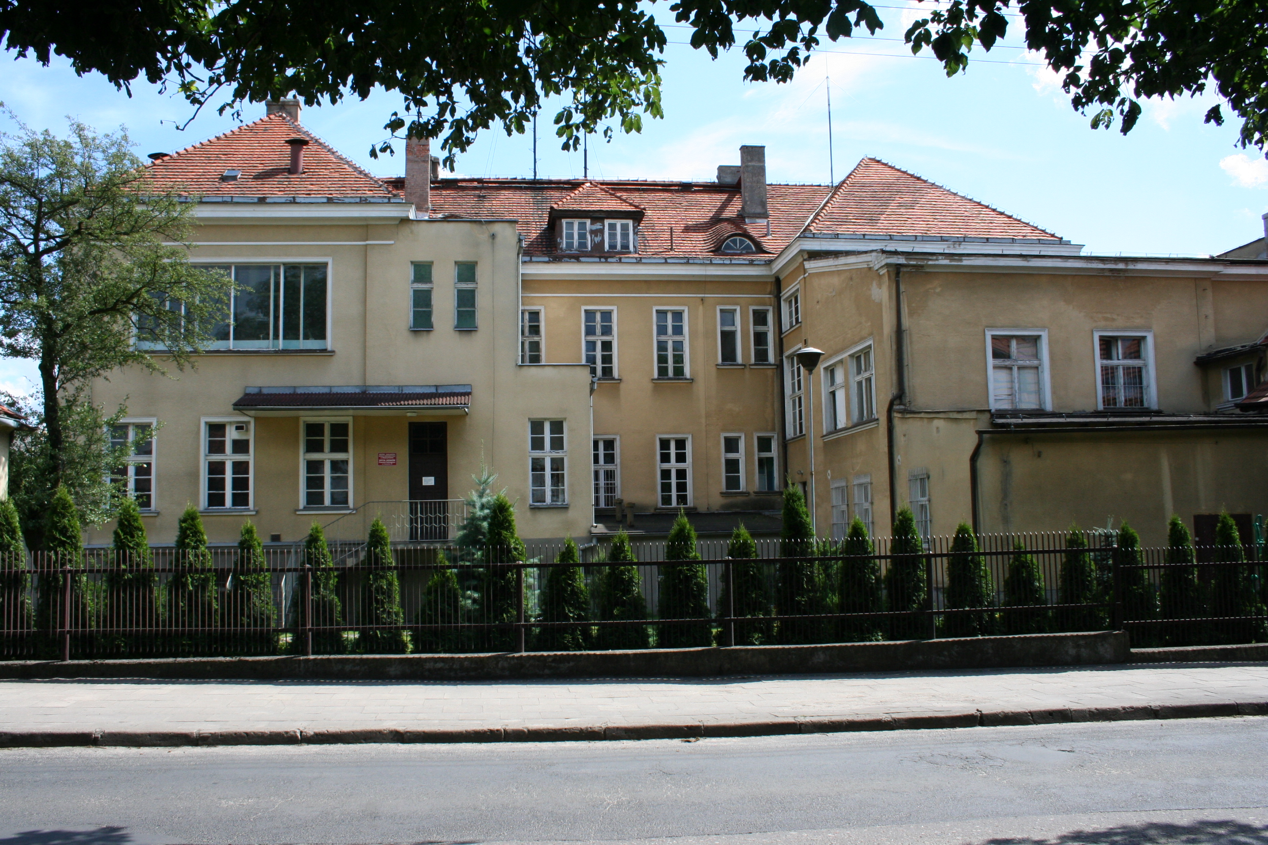 Maternity hospital in Sieraków